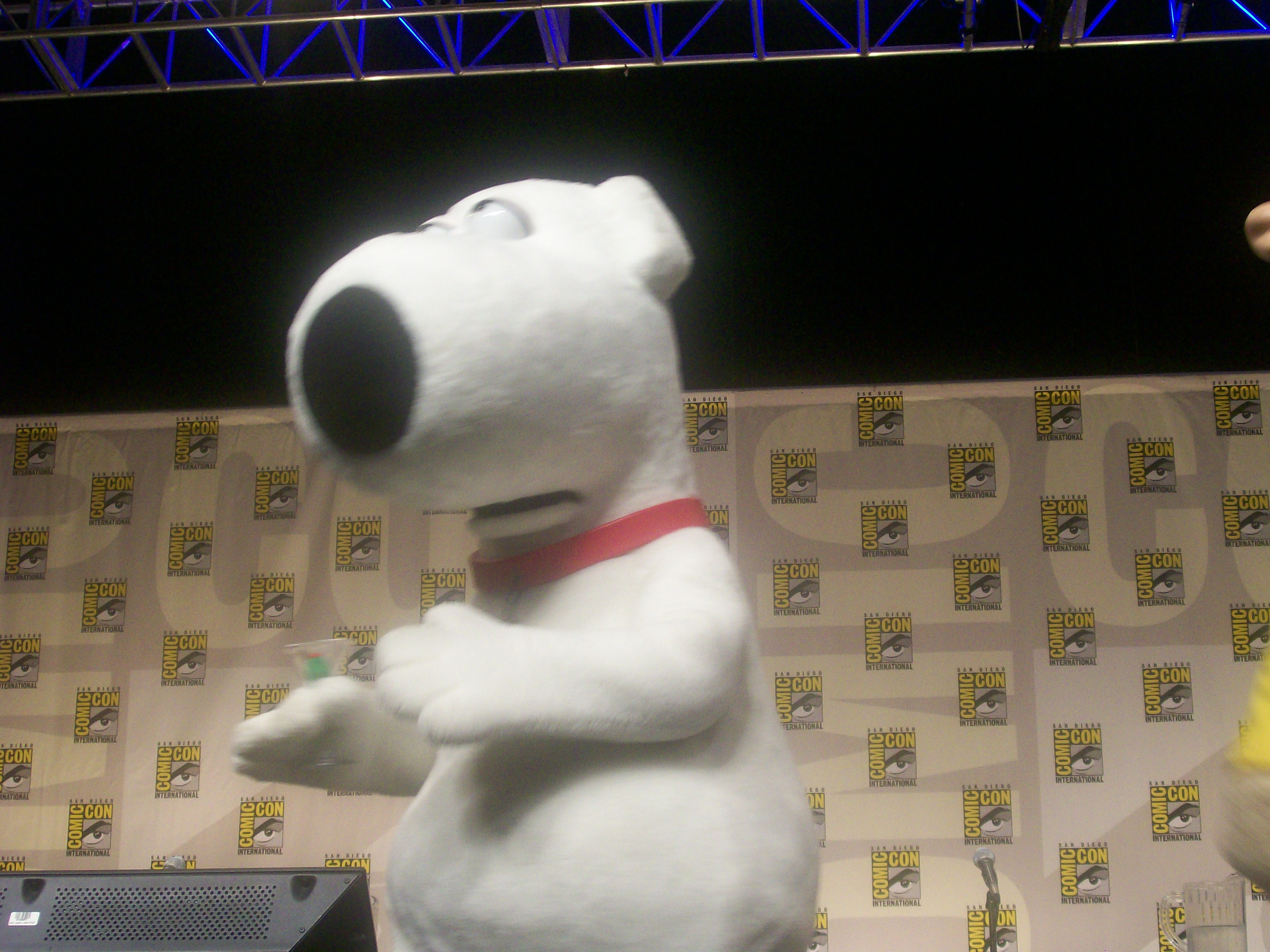 Life-sized costume of Brian Griffin.